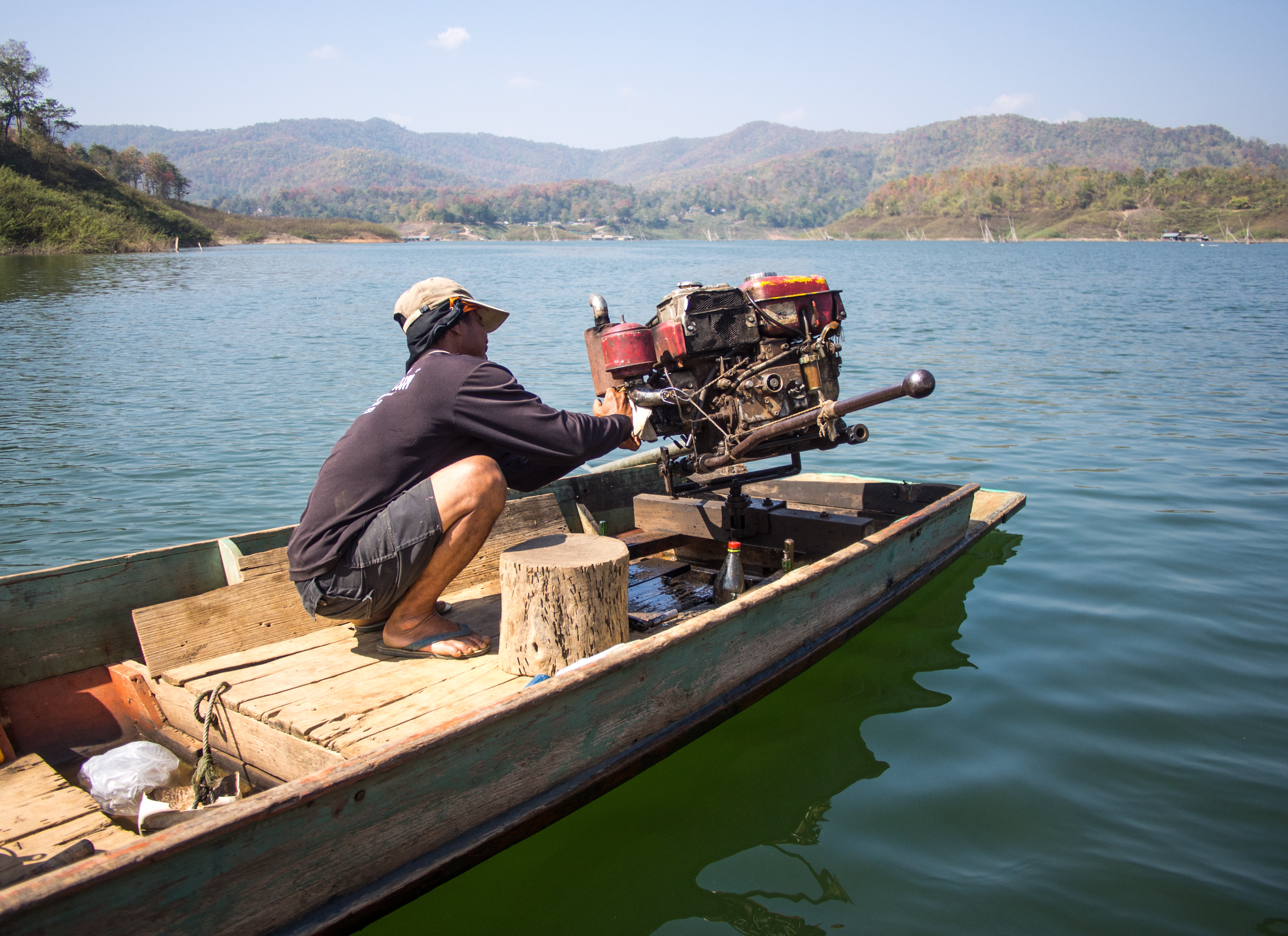 The ferryman, unsuccessfully, tries to repair the engine of the longtail boat that pulls the actual ferry, after it had broken down.